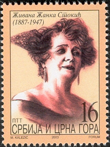 Famous Serbian Actors - Zivana-Zanka Stokic (1887-1947)